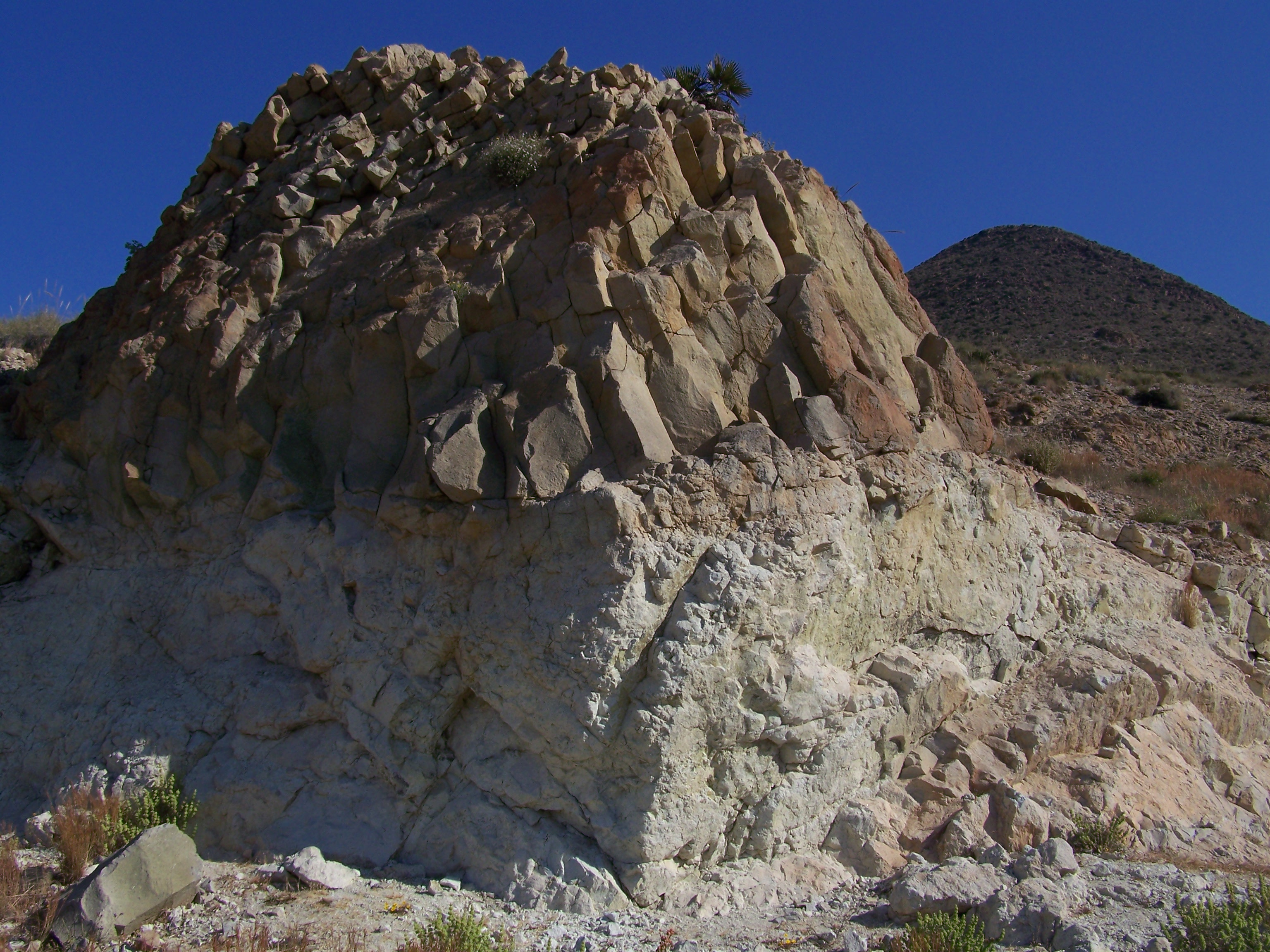 Outcrop of Miocene volcanic rocks at Capo de Gata, SE Spain. Two units with different styles of weathering are present. On top is a dacite lava flow, forming a homogeneous cooling unit characterized by columnal jointing. Bottom unit is a volcanic breccia